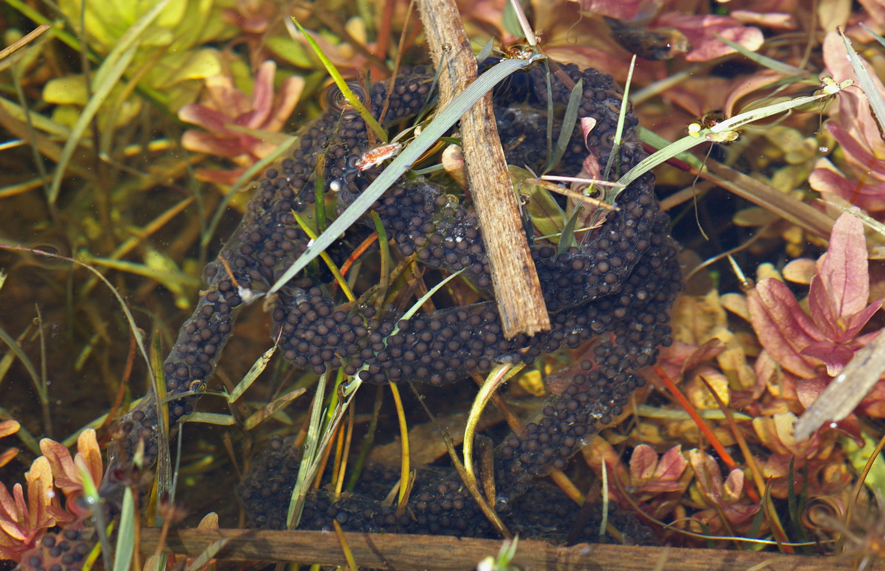 Fresh spawn of the Common Spadefood Toad, Pelobates fuscus, in a pool.